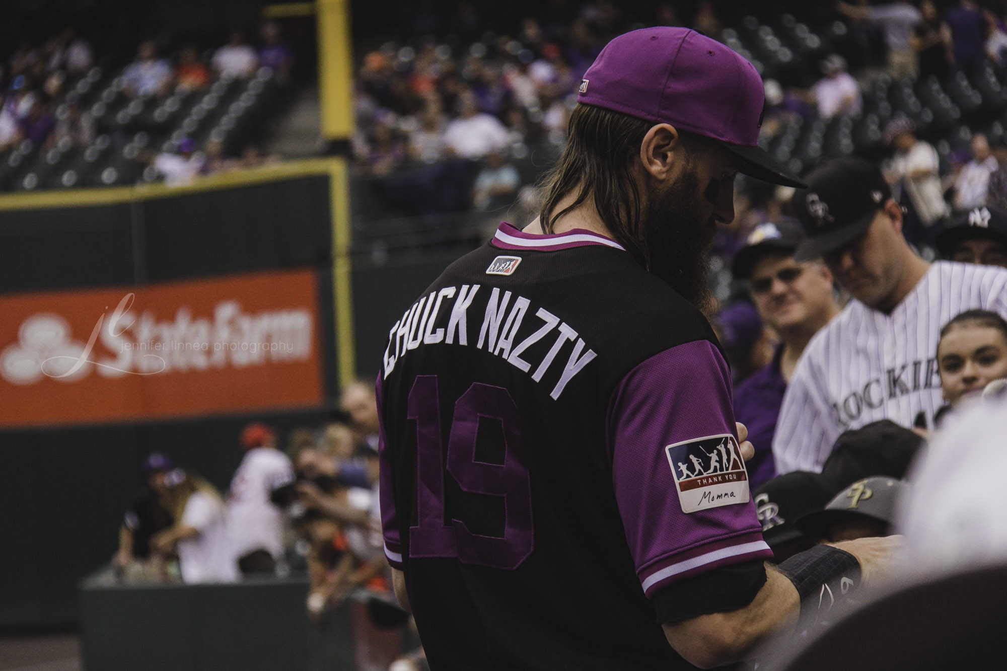 Charlie Blackmon of the Colorado Rockies signs autographs for fans before taking on the St Louis Cardinals during Players Weekend at Coors Field on August 25, 2018.